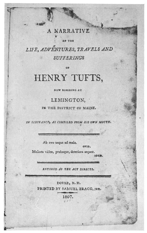 Title page from A Narrative of the Life, Adventures, Travels and Sufferings of Henry Tufts; Samuel Bragg, Jr., printer; Dover, New Hampshire 1807. Courtesy of the Bethel Historical Society, Bethel, Maine.